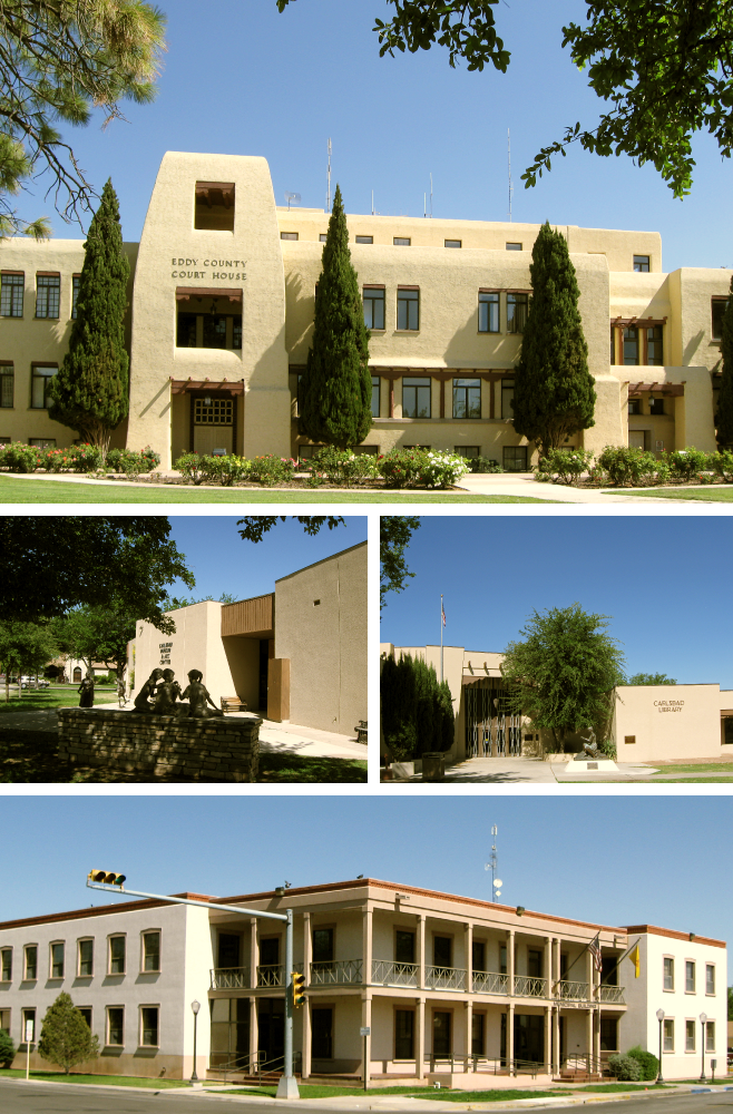 Collage of photos around Carlsbad including the Eddy County Courthouse, Carlsbad Museum and Art Center, Carlsbad Library, and Carlsbad Municipal Building.